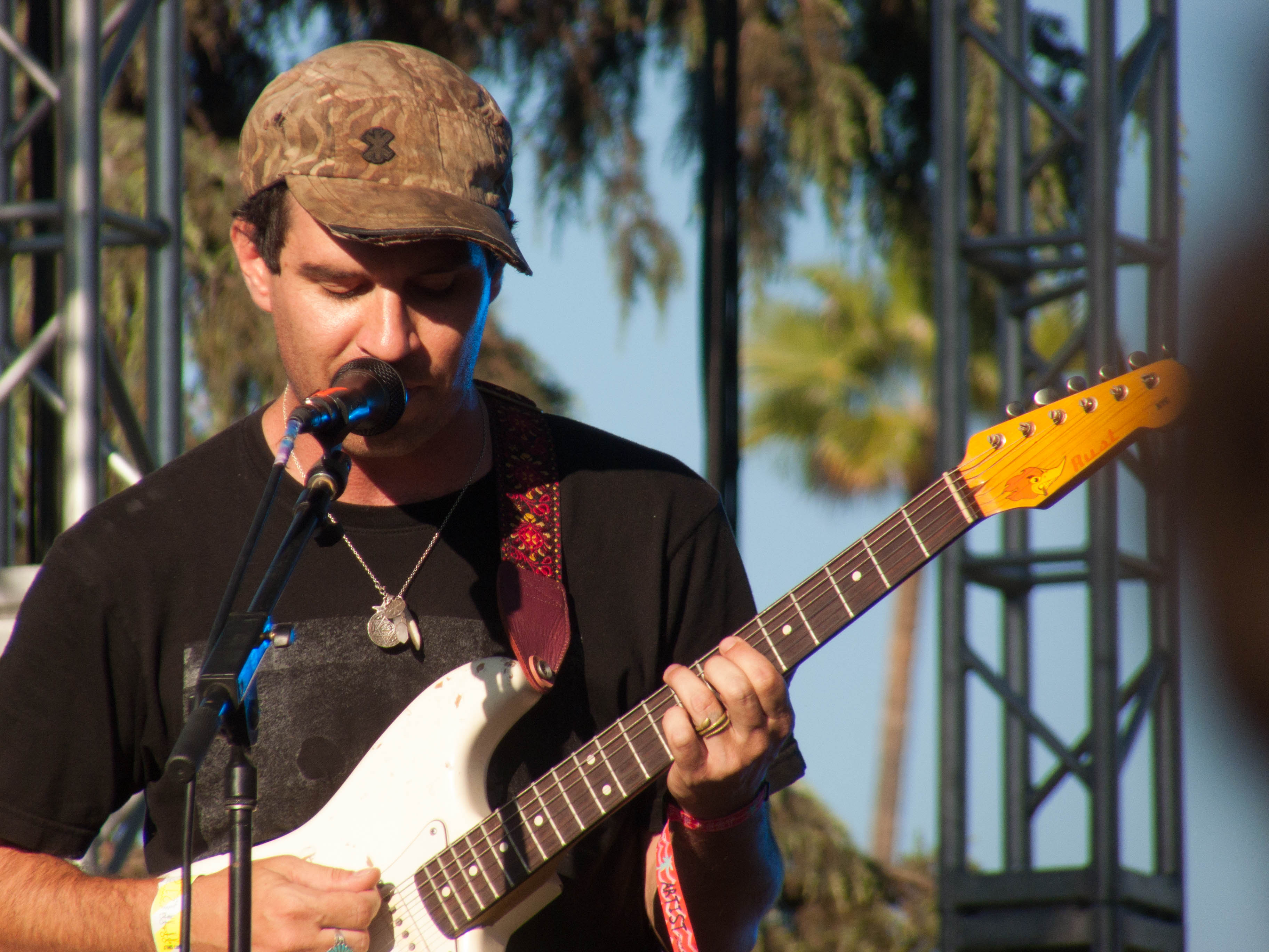 Avey Tare performing with Avey Tare's Slasher Flicks at the 2014 FYF Festival